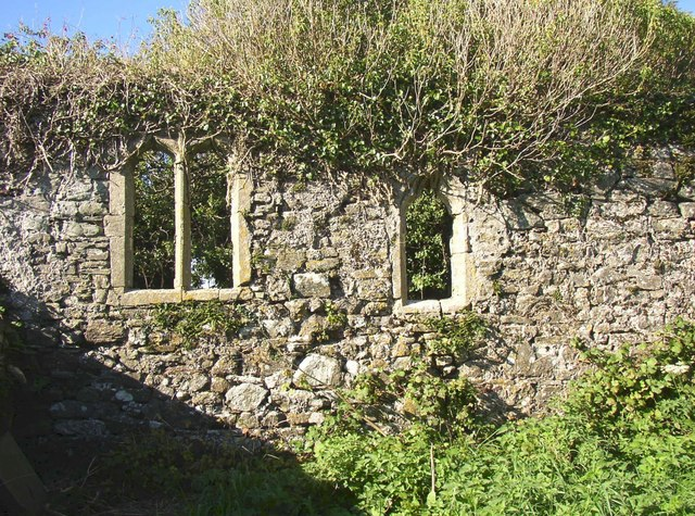 Detail of St Teilo's Church, Llandilo Abercowin, Llangynog These two windows are the best remaining part of this church. Someone has been attempting to restrain the ivy. The Afon Cowin from which the name of the hamlet is derived is now spelt Cywyn.